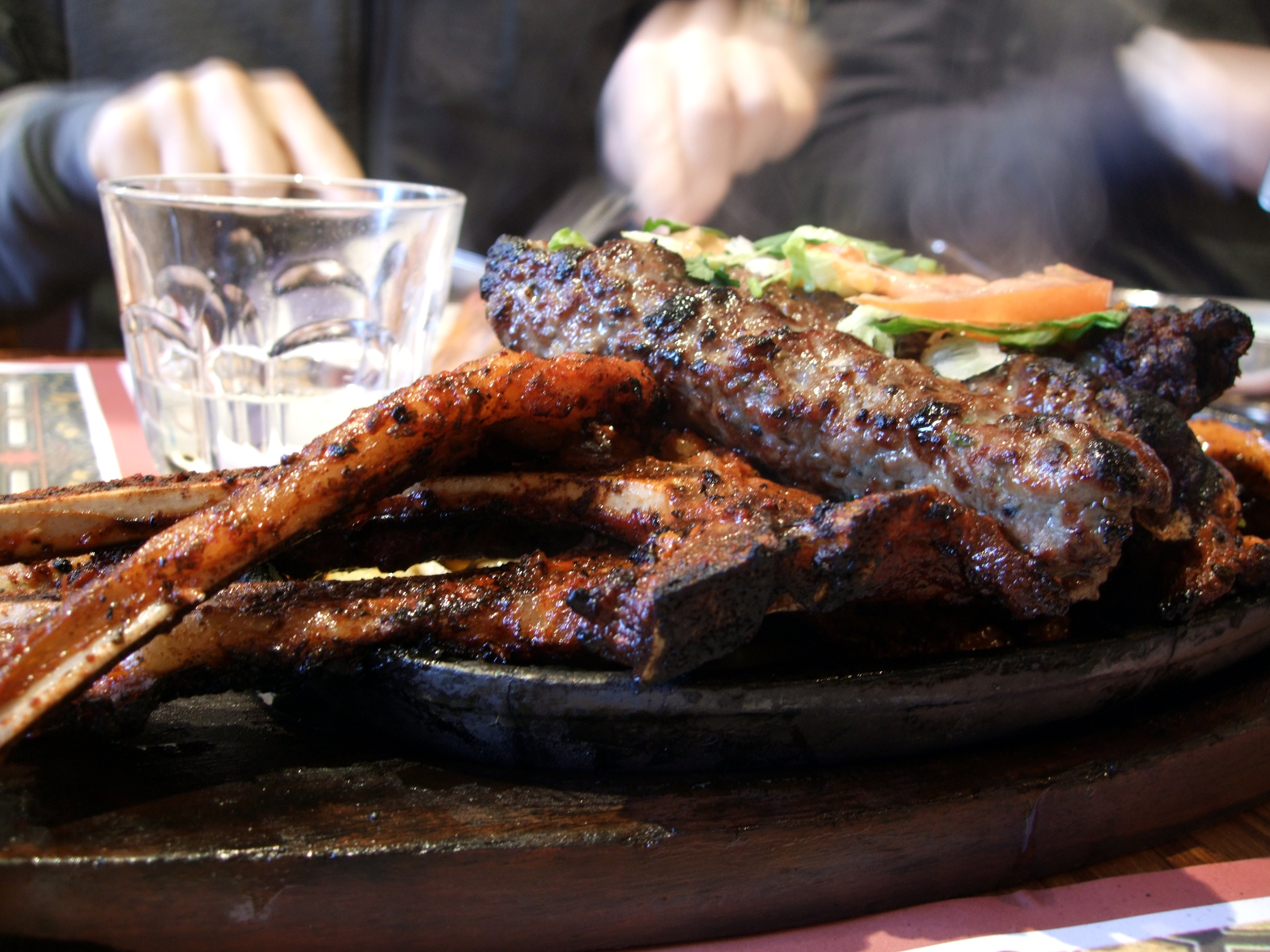 Mixed grill plate at Tayyabs. At Tayyabs, Fieldgate Street.